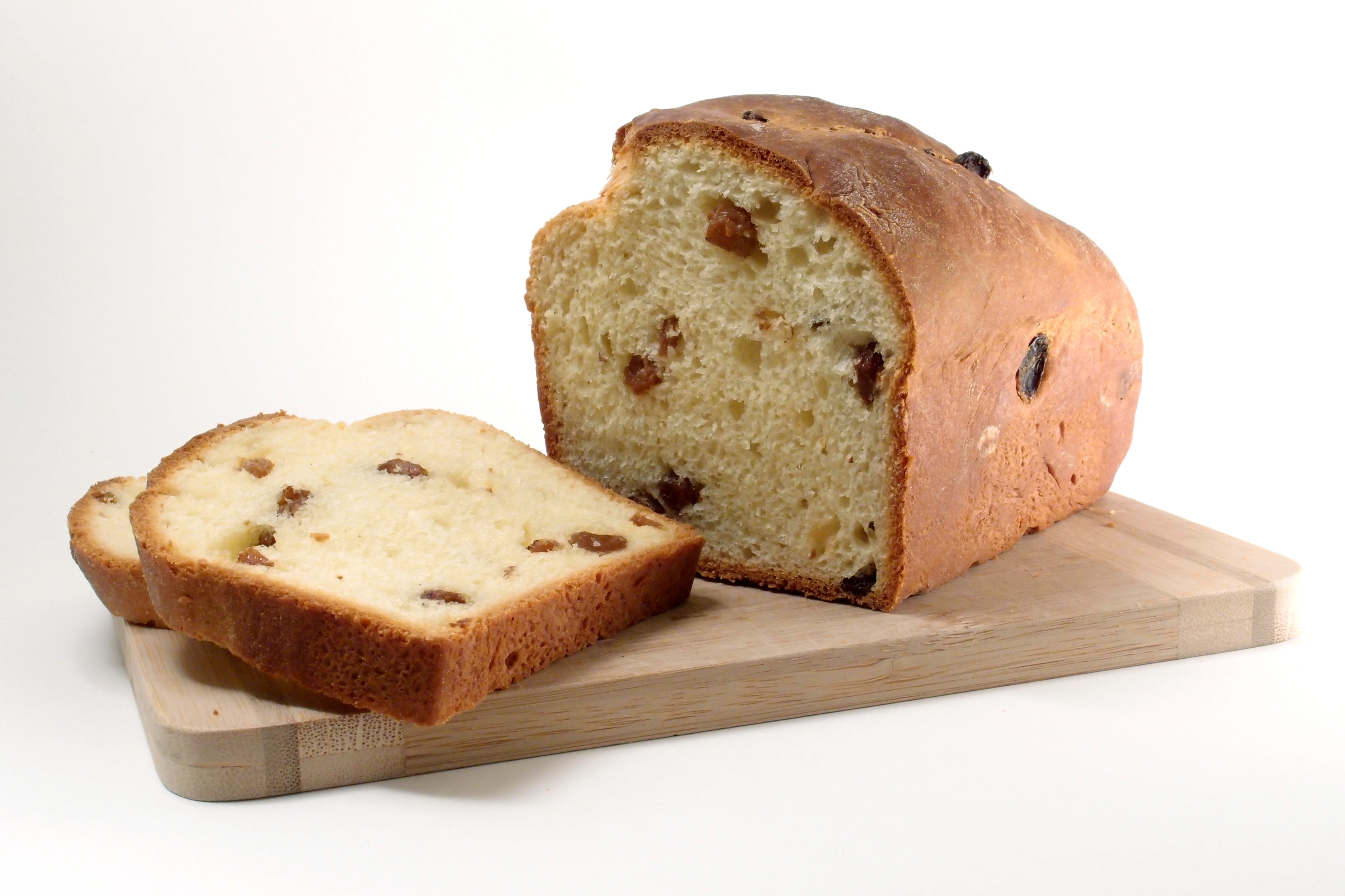 Sweet bread with raisins, made from a rich yeast dough.